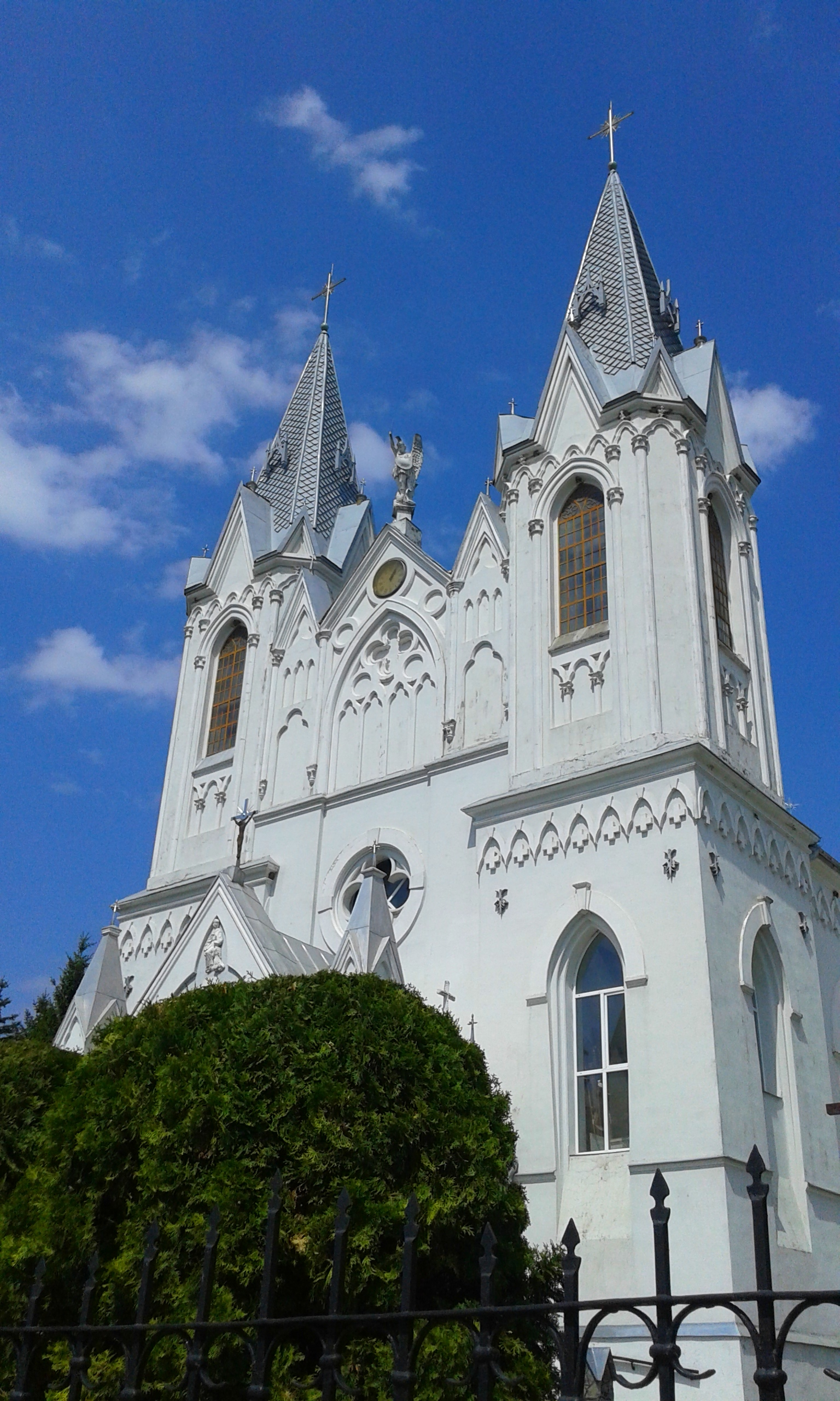 (003) St Anna Roman Catholic Cathedral in Town of Bar Region of Vinnytsia State of Ukraine Photograph by Viktor O Ledenyov 20170504